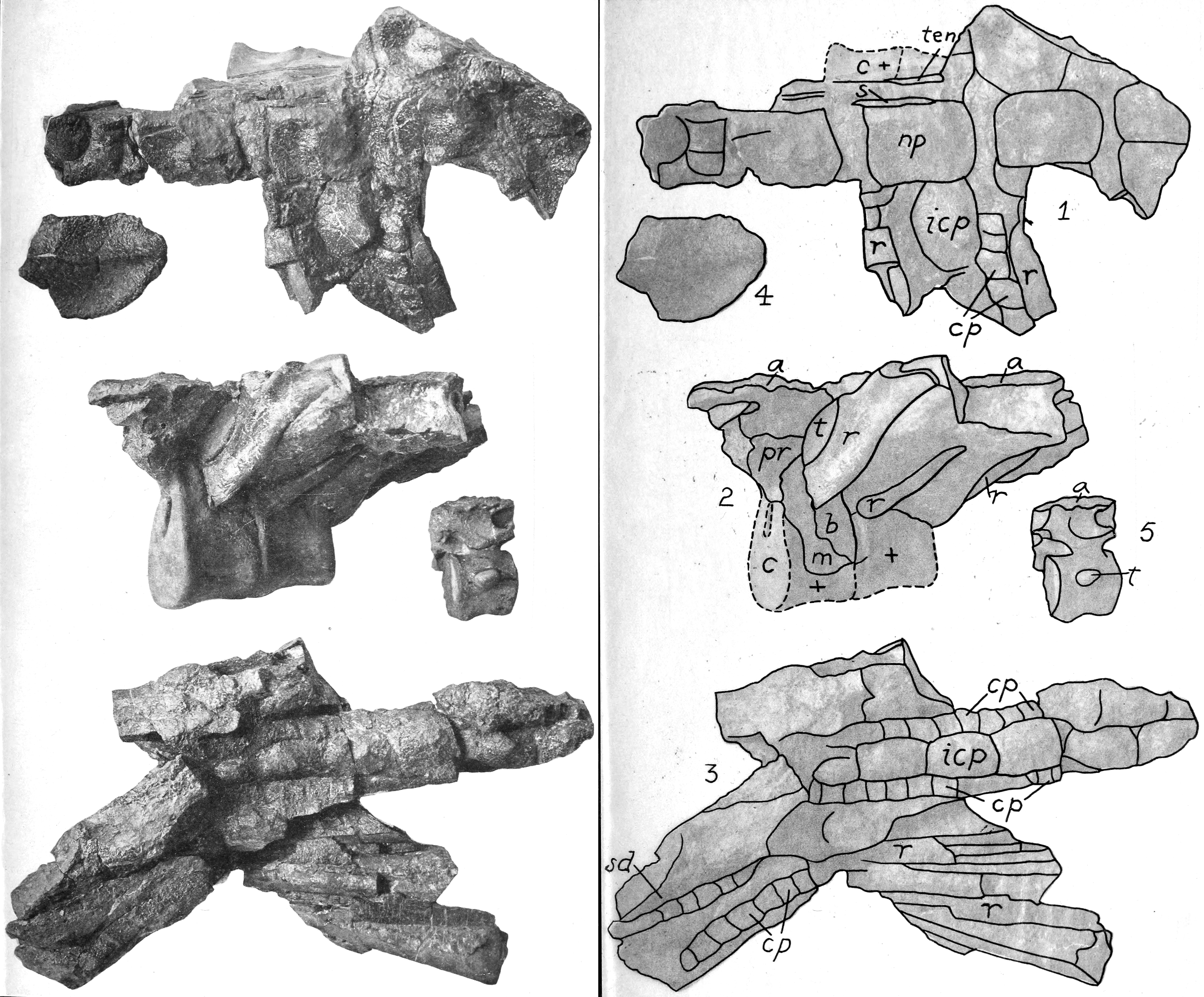 Title: The American journal of science Year: 1880 (1880s) Authors: Subjects: Science Publisher: New Haven : J. D. & E. S. Dana Text Appearing Before Image: Am. Jour. Sci., Vol. I, February, 192' Plate I, Text Appearing After Image: '